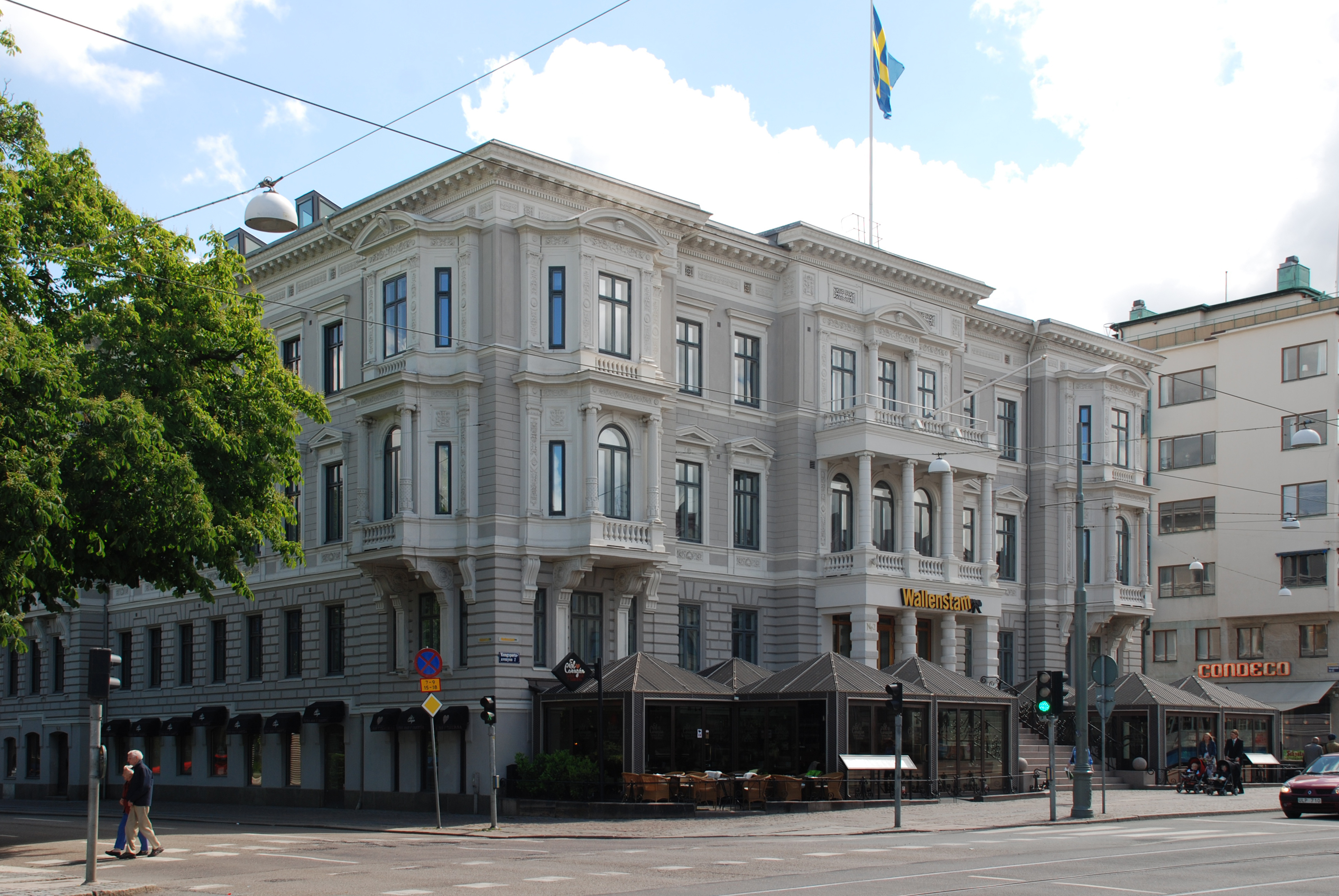 Kungsportsavenyn 2, quarter 44 Visborg in city part Lorensberg in Göteborg.